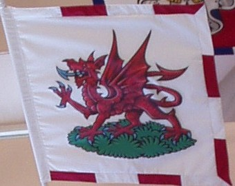 Badge of Rouge Dragon Pursuivant displayed on a banner hanging in the College of Arms, London.